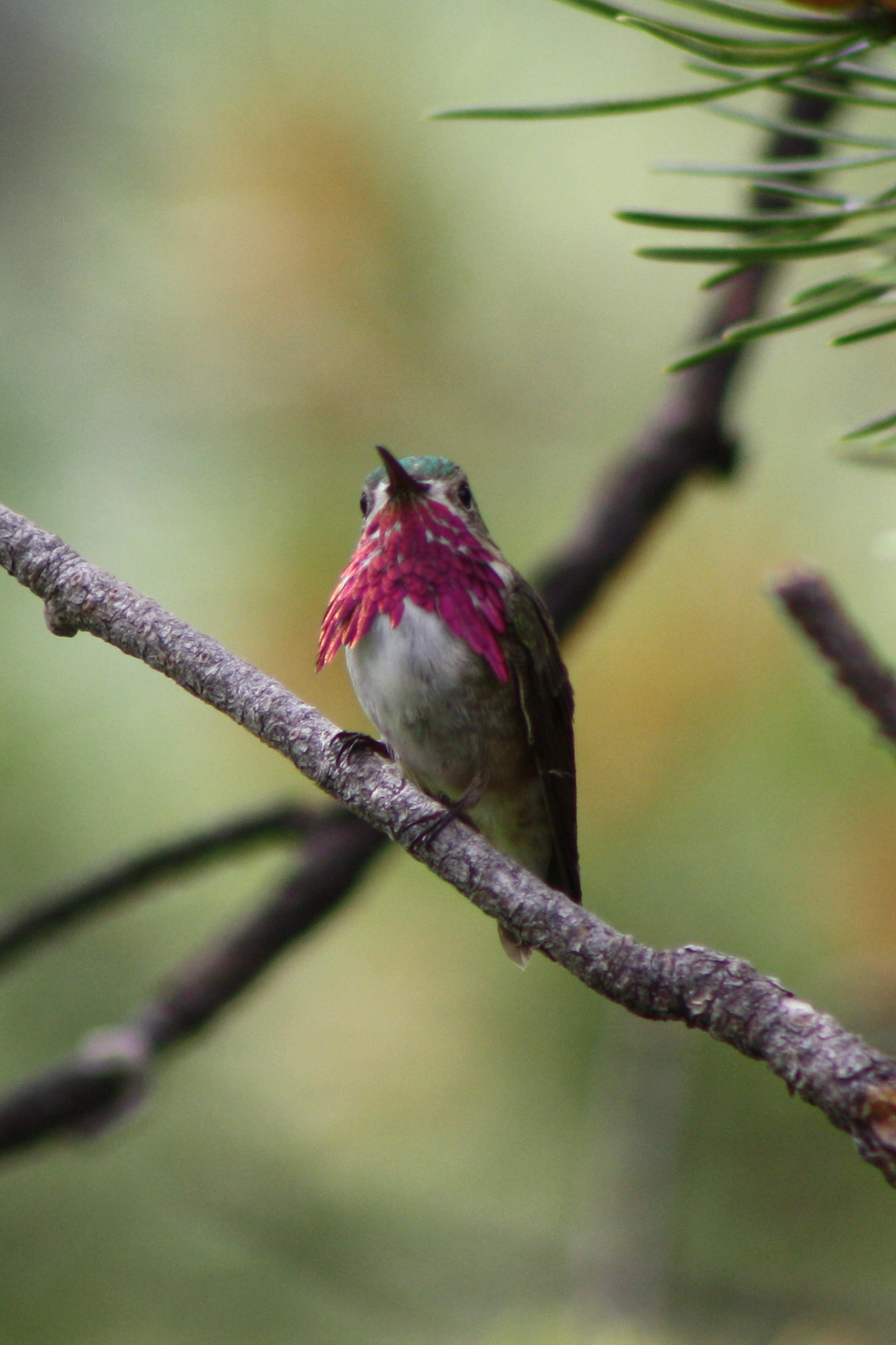 Calliope hummingbird, Stellula calliope; male, WY